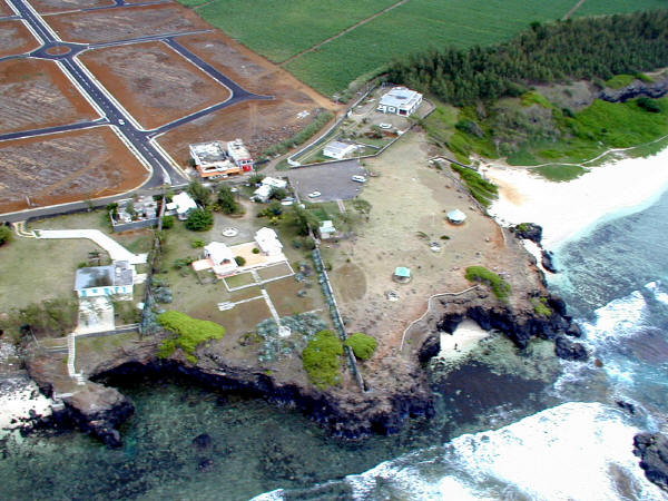 Last part of morcellement Gris-gris in Souillac, Mauritius.